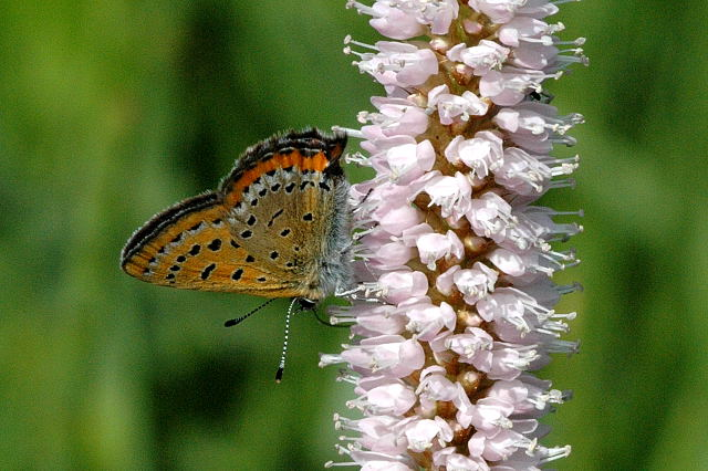 Picture taken in Commanster, Belgian High Ardennes . Species: Lycaena helle